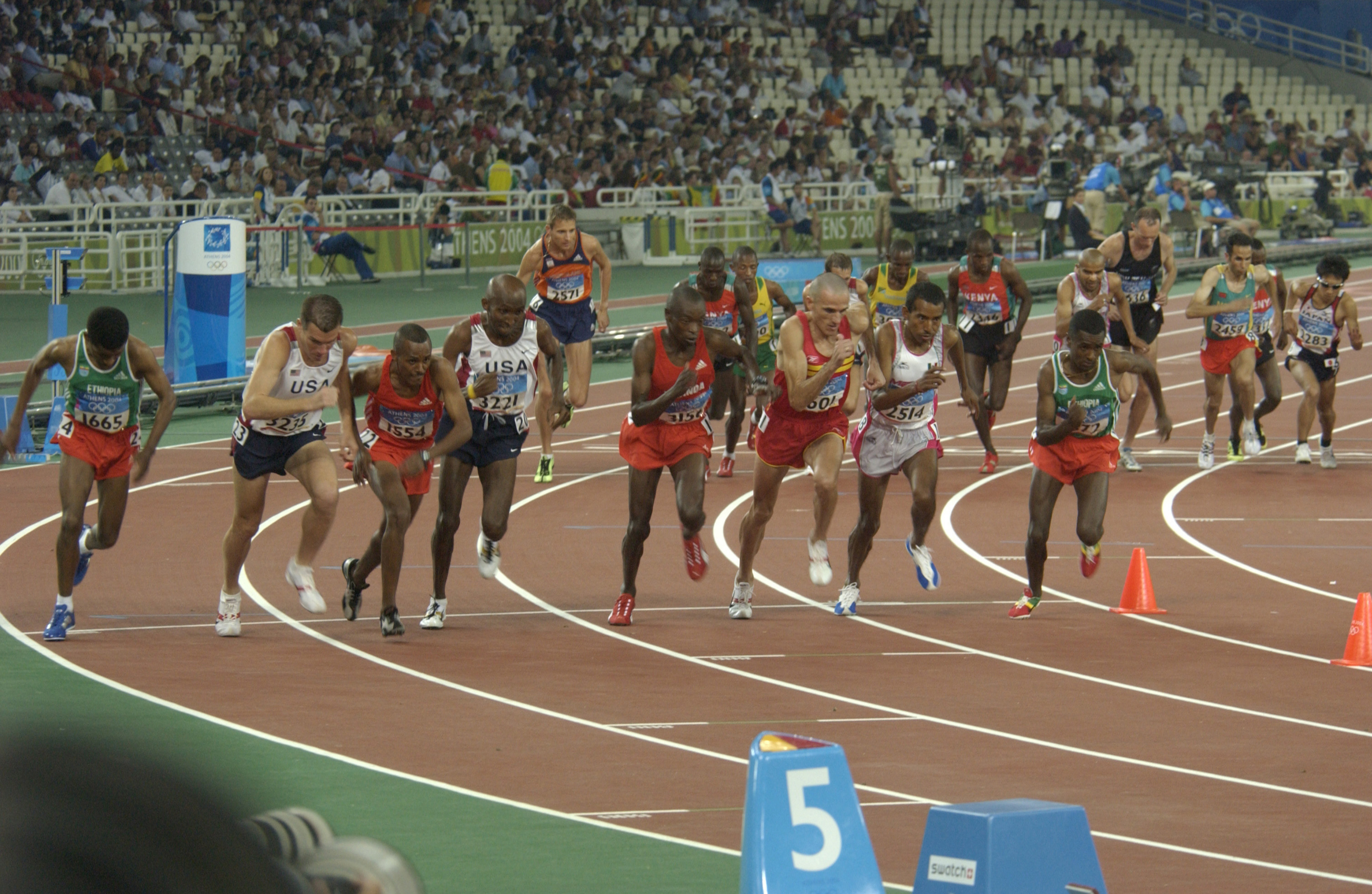 Oregon National Guard Capt. Dan Browne (2nd from the left) takes off at the start of the men's 10,000-meter final during the 2004 Olympics in Athens, Greece, on August 20, 2004. Browne finished 12th in a field of 26 competitors.